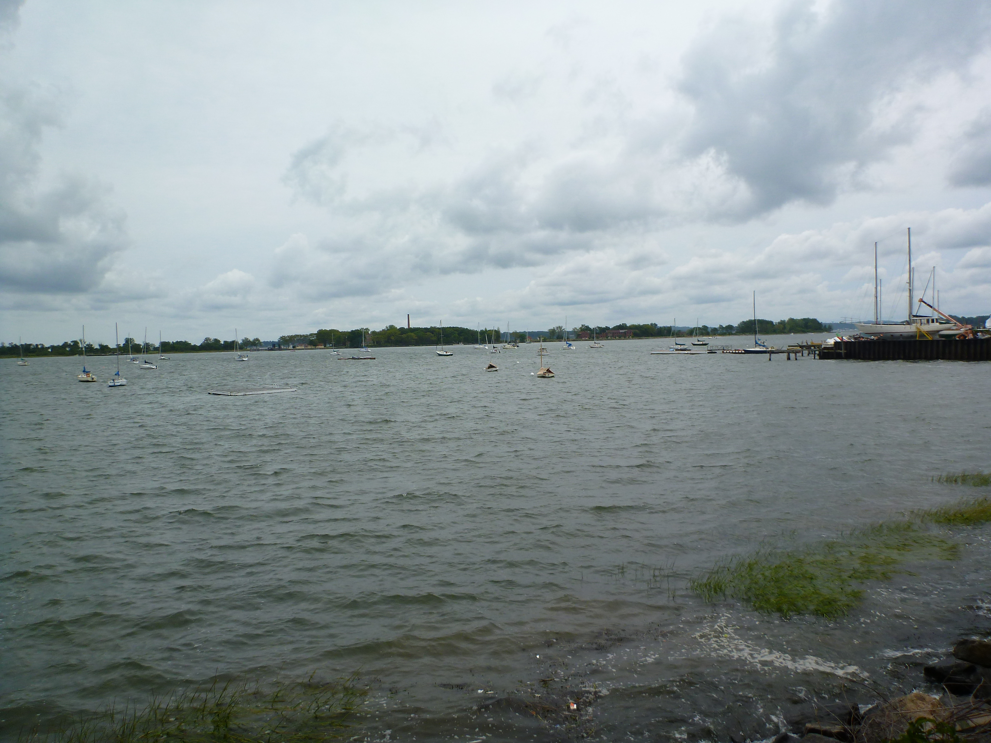 Hart Island, view from City Island